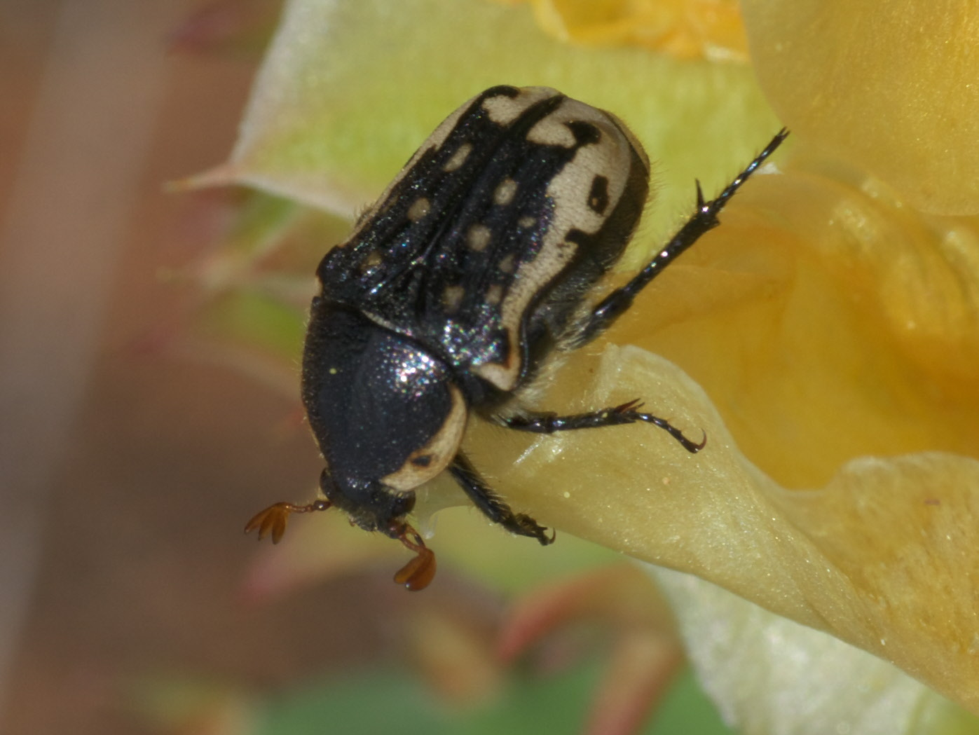 Euphoria kernii, Kern's Flower Scarab, ID Confidence: 87